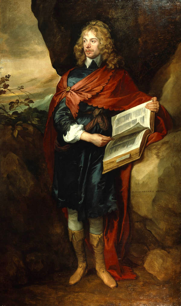 Portrait of Sir John Suckling (1609-1642)